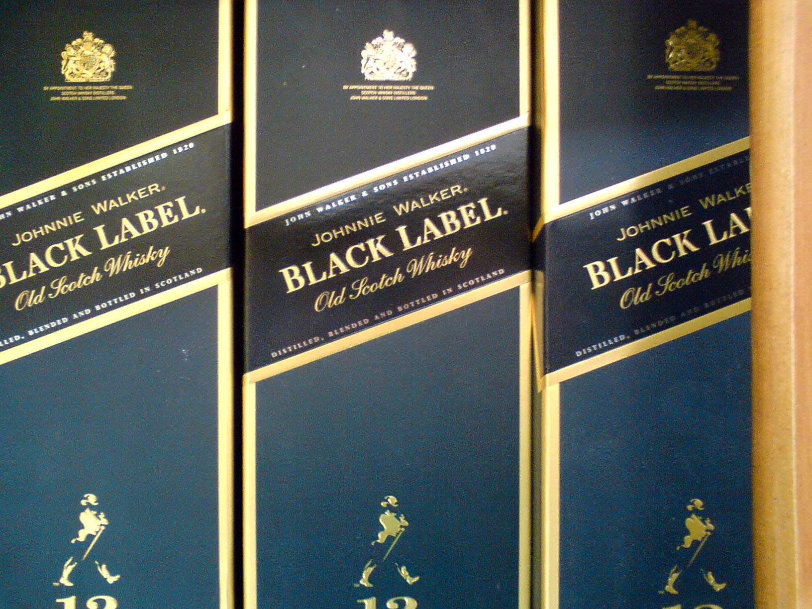 Johnnie Walker Black Label (12 years Scotch Whisky) boxes.